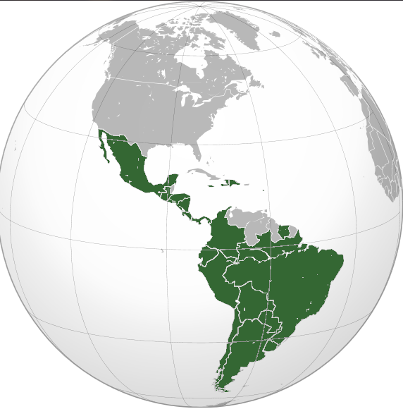 image of the countries that have ratified the american convention oh human rights